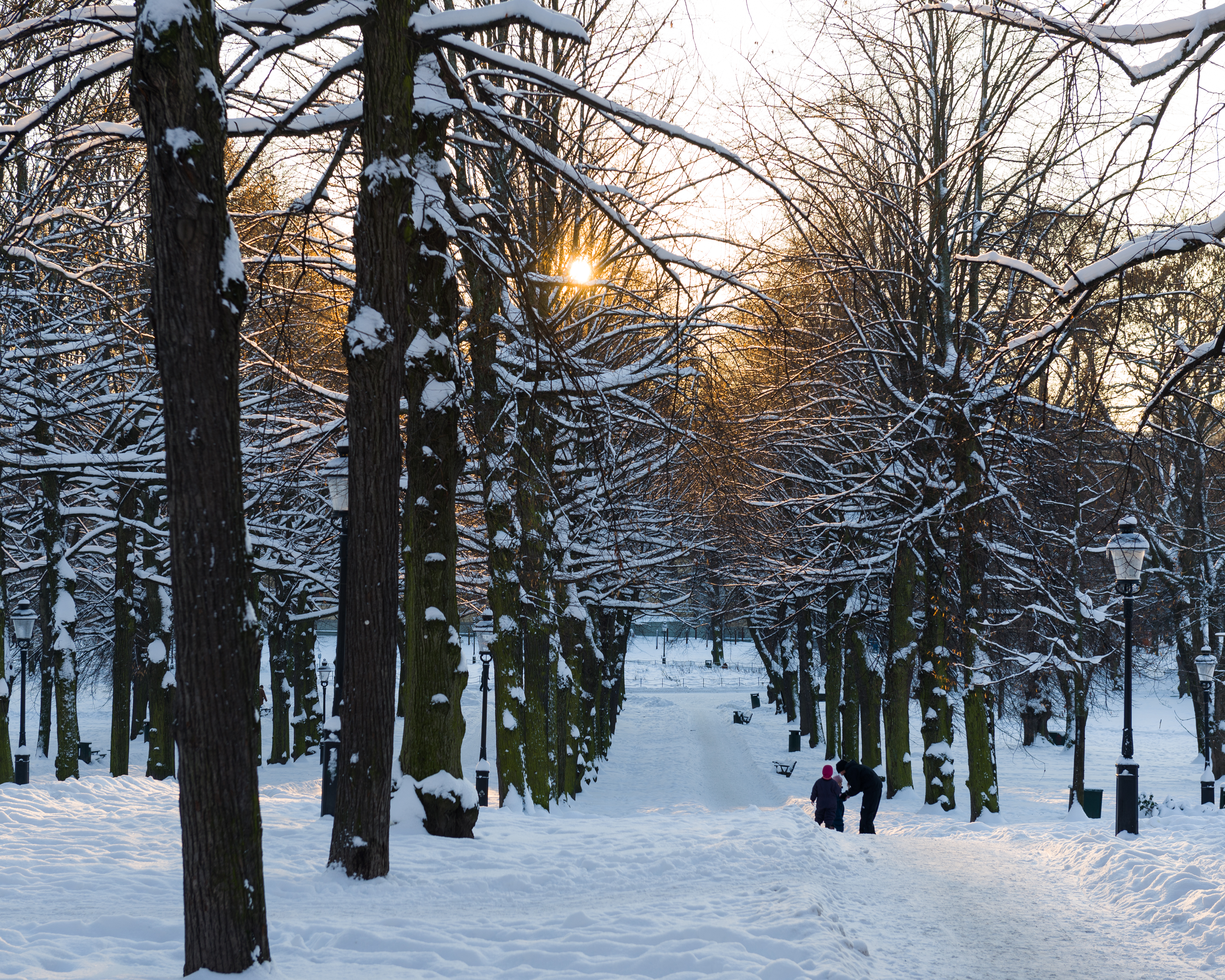 Humlegården, Stockholm. December 2012.